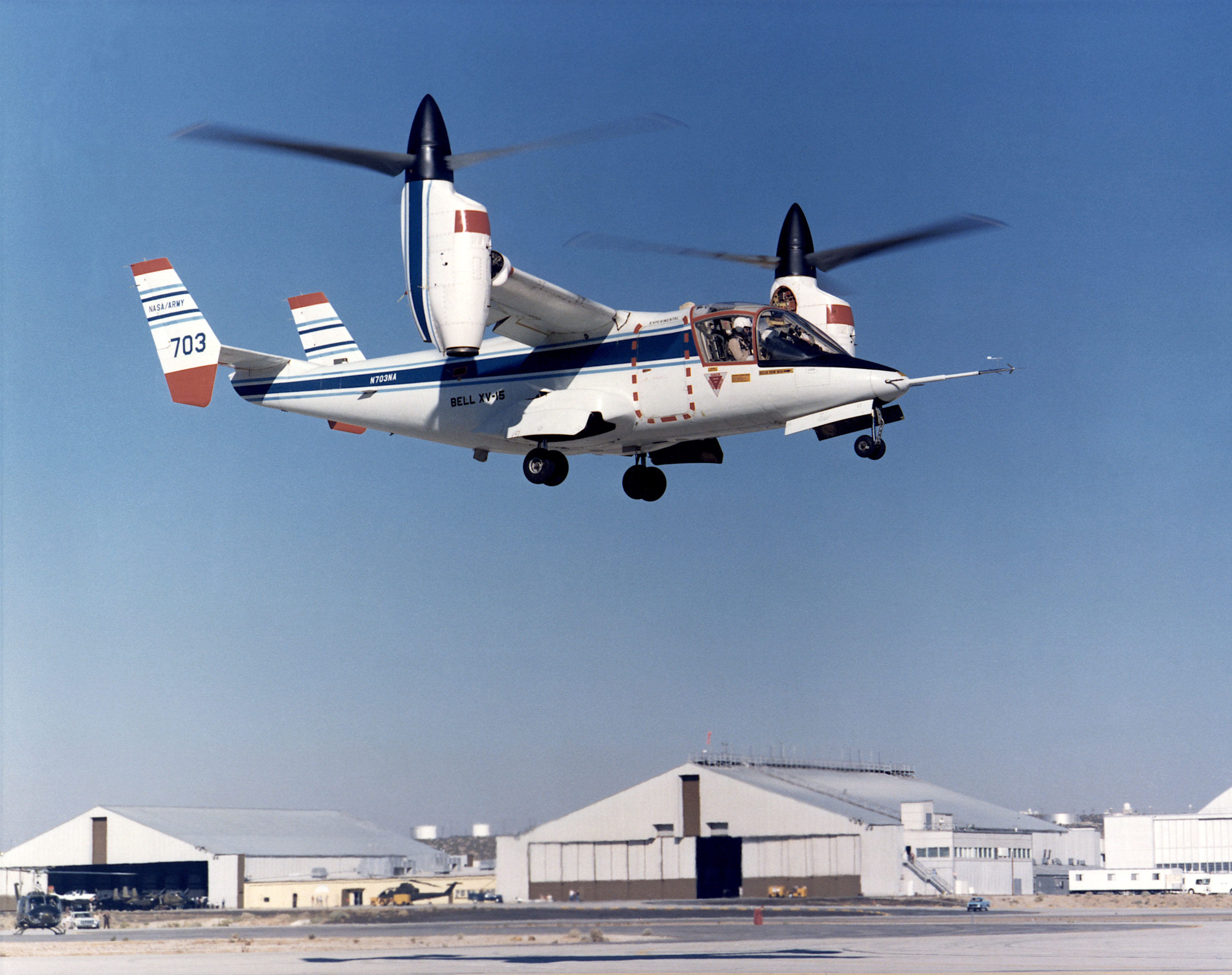 XV-15 tilt rotor takeoff - first NASA Dryden flight from the U.S. Army Engineering Flight Activity hangars Edwards AFB, California